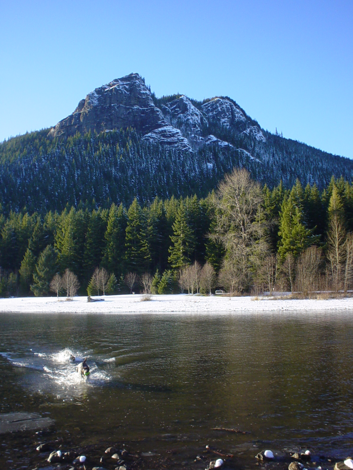 This is a photo of Rattlesnake Ledge in the background and Rattlesnake Lake in the foreground. Konrad Roeder (CC) 2006.